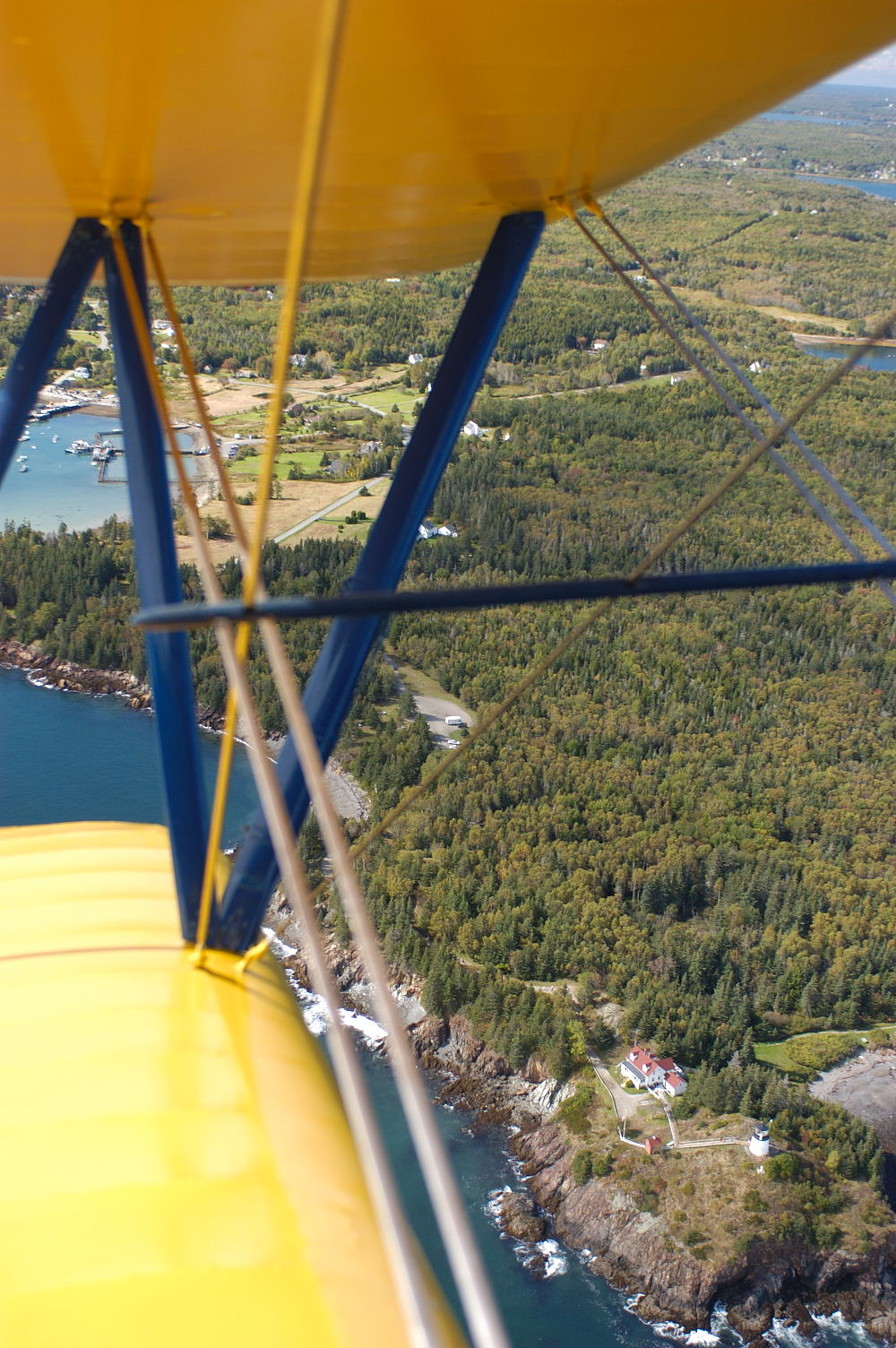 Owls Head Light and part of Owls Head, Maine harbor viewed from the Owls Head Transportation Museum's Stearman Biplane, taken on 2003/10/5 by Jason Philbrook. The Owls Head Light is at the location specified below, and is pictured in the middle of the 4th quadrant of the 4th quadrant. (Originally uploaded at 2006-01-02 19:22:23)